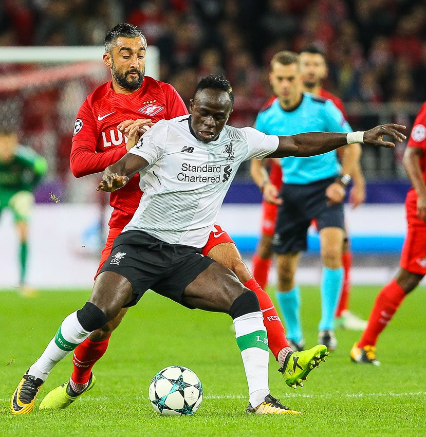 Sadio Mané, Aleksandr Samedov